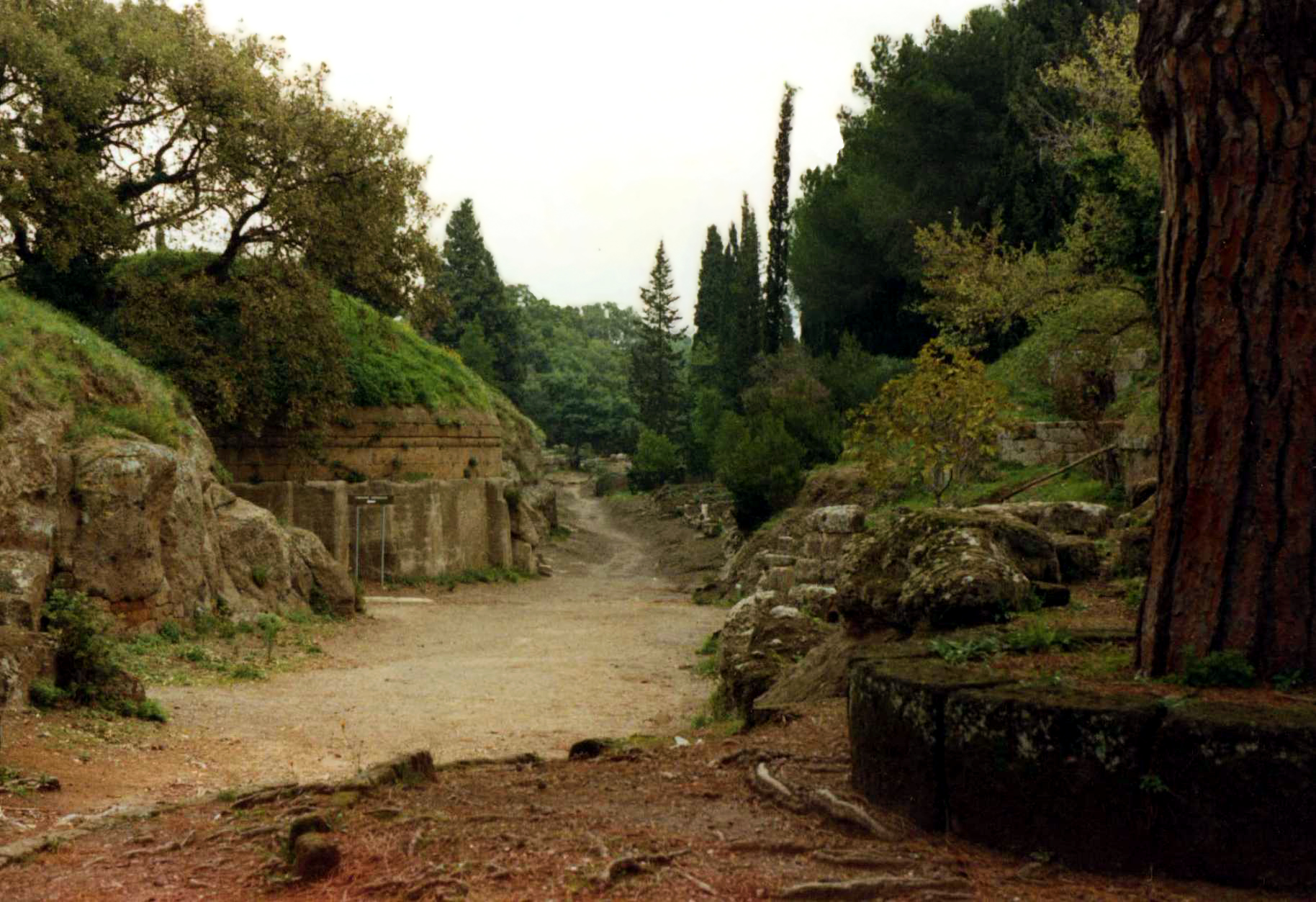 Etruscan burial mounds, so-called Tumuli, part of the necropolis of Banditaccia at Cerveteri in Lazio, Italy